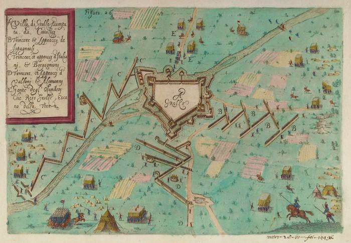 The siege of Grol (Groenlo) in 1606 by Spinola.